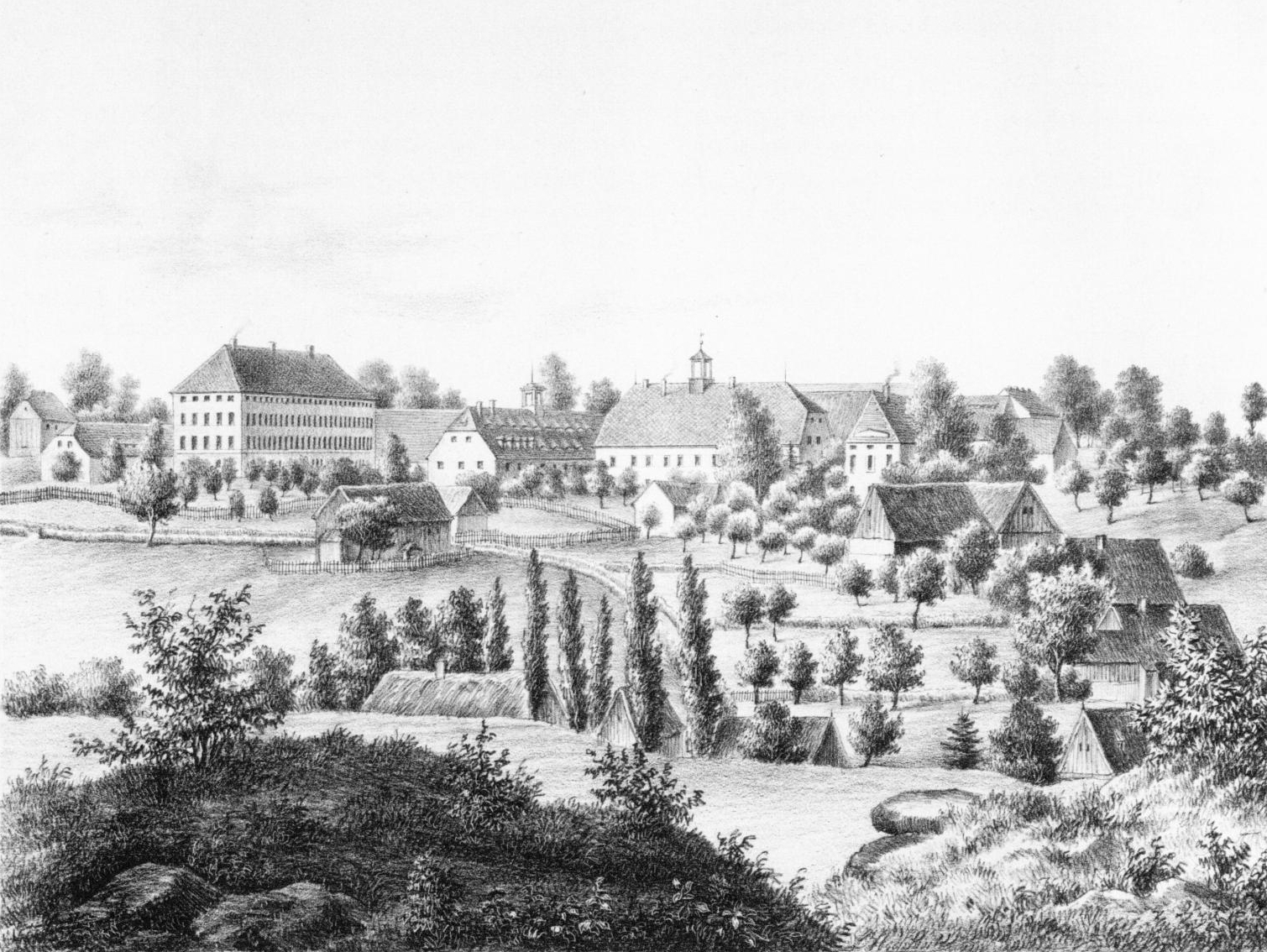 manor Bräunsdorf in the Erzgebirge